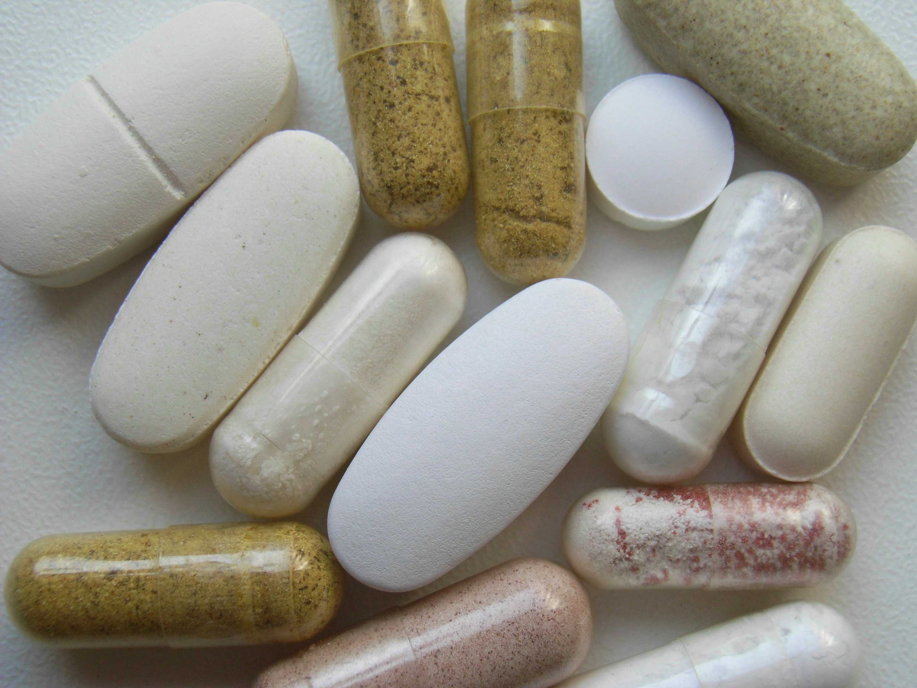 Vitamin pills.